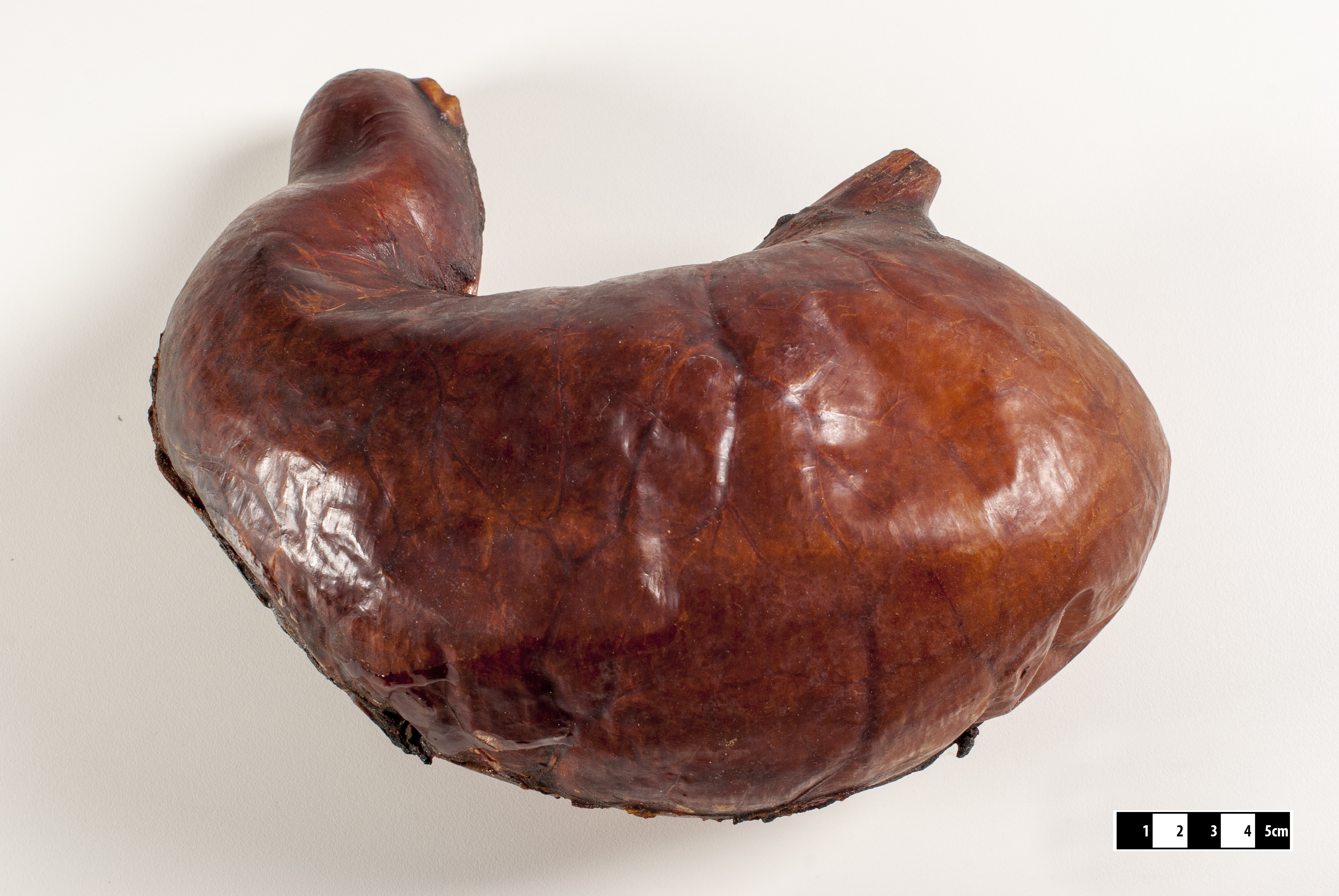 Equine stomach. Equus Technique of dehydration - piece showing the stomach on display at the Museum of Veterinary Anatomy, FMVZ USP. This file was published as the result of a partnership between the Museum of Veterinary Anatomy FMVZ USP, the RIDC NeuroMat and the Wikimedia Community User Group Brasil. This GLAM project is reported. Photography: Museum of Veterinary Anatomy FMVZ USP.